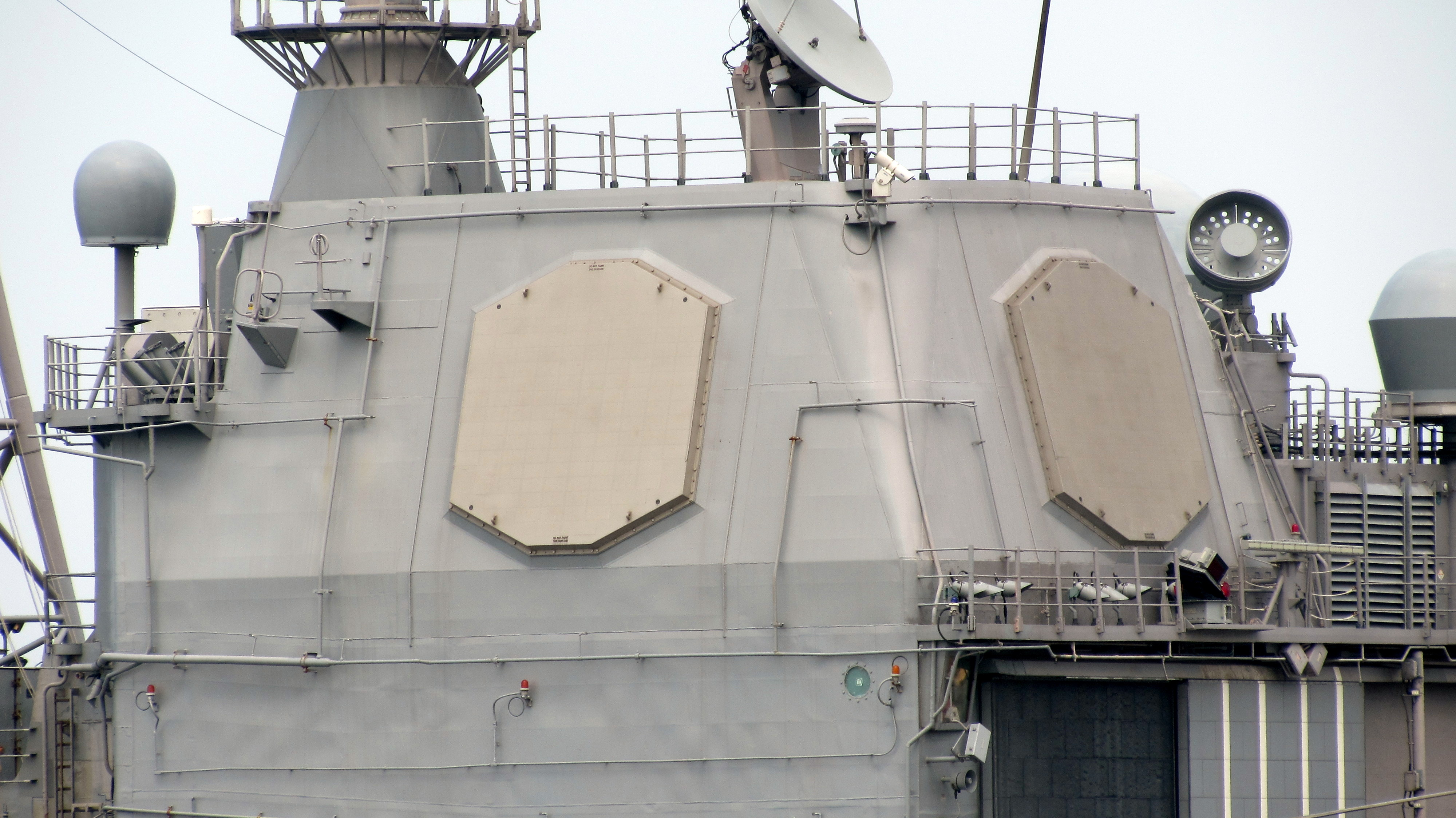 The octagonal, fixed Radar Antennas of the AN/SPY-1 Radar of the USS Antietam (CG-54) Cruiser. Photo taken at the Manila South Harbor Pier 15.